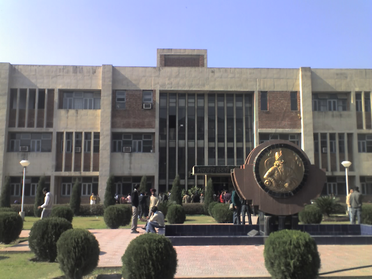 View of the Maharaja Ranjit Singh (MRS) Block, where classes for B.Tech, MCA and MBA courses are held, at Guru Nanak Dev University, Amritsar